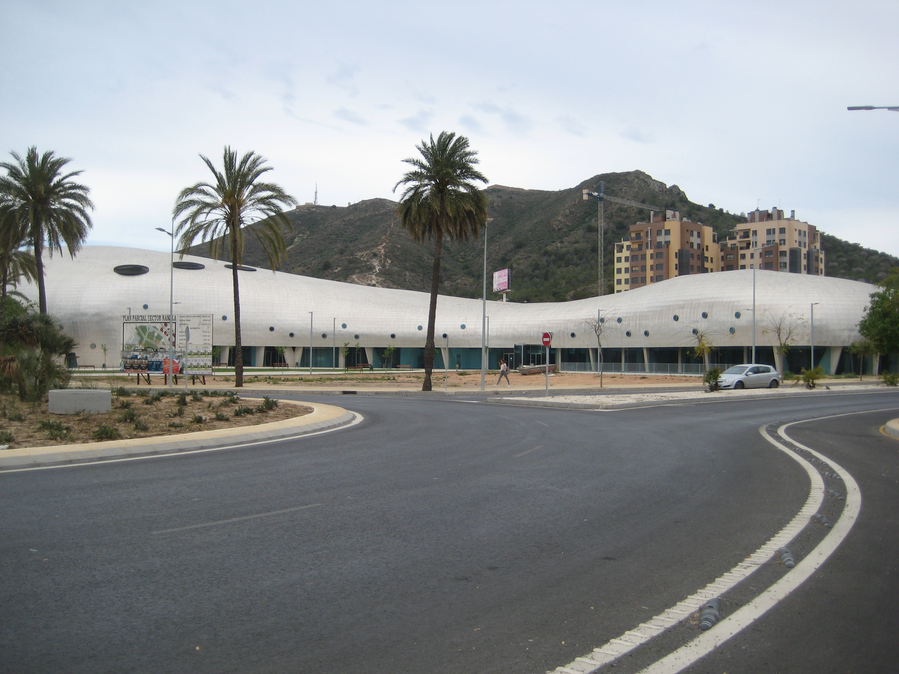 Cartagena Spain Sports Palace under construction